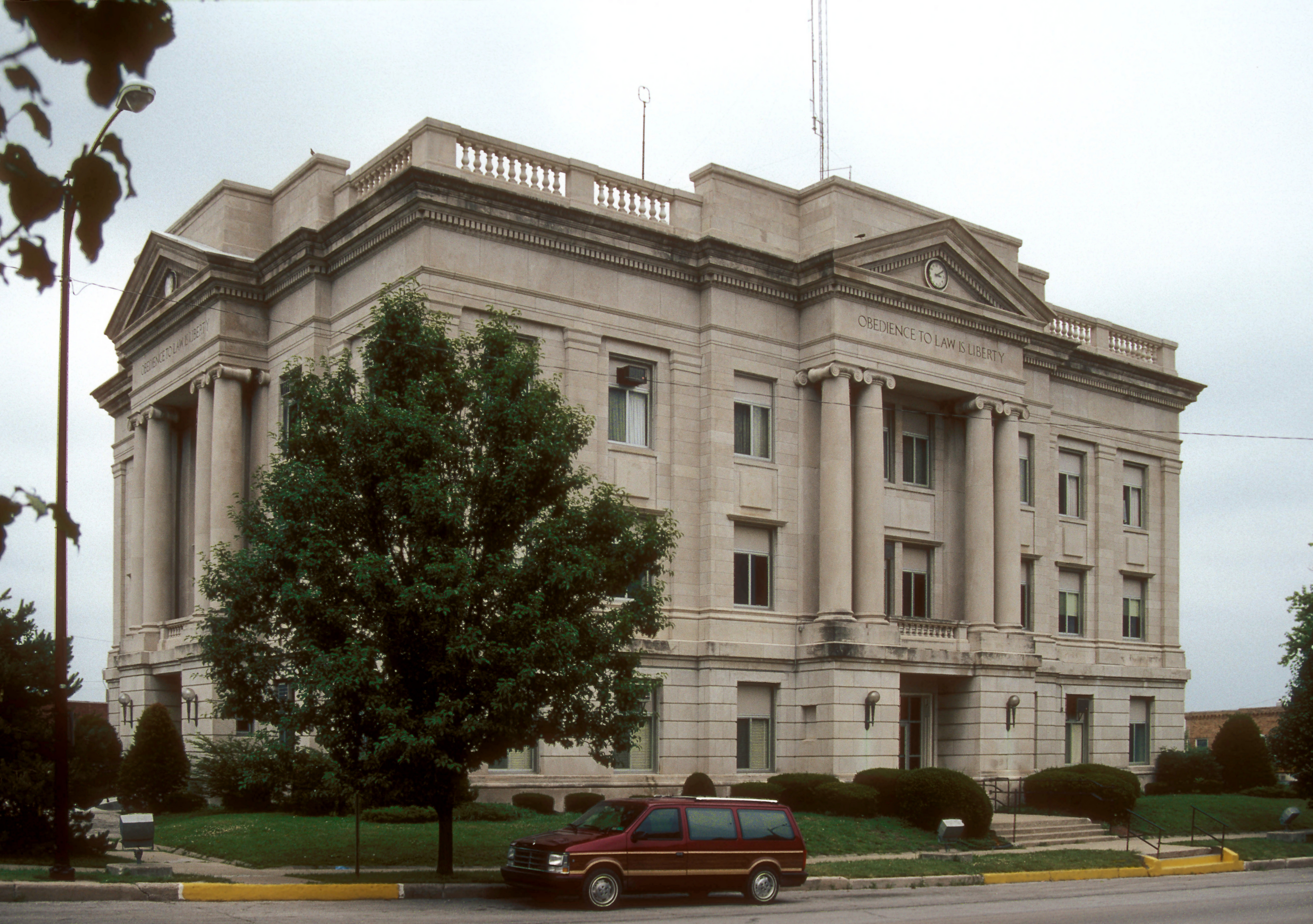 R. WARREN ROBERTS DESIGNED THIS LIMESTONE COURTHOUSE BUILT IN 1914 IN CLASSICAL REVIVAL STYLE.